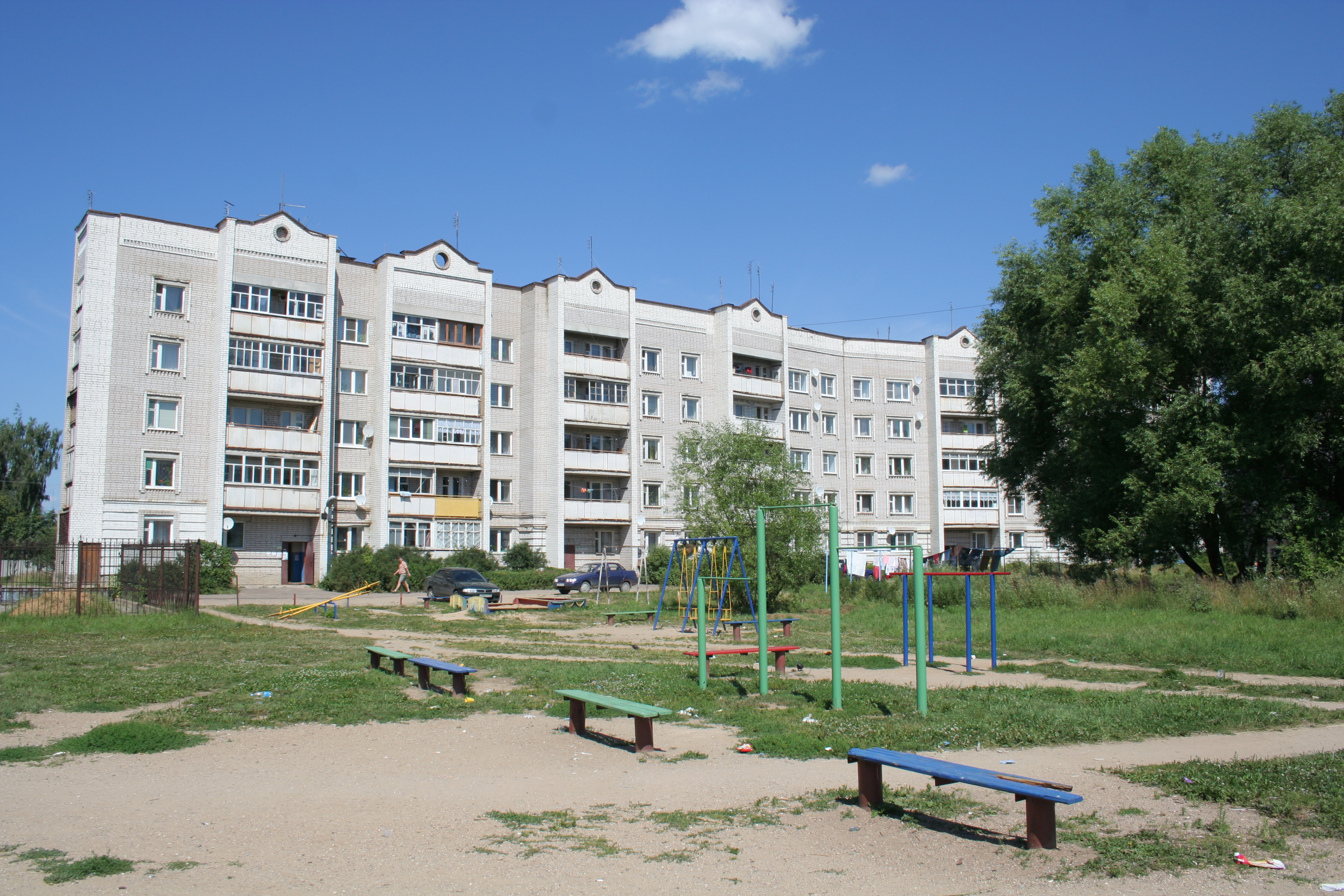 Views of Nerekhta, Kostroma Oblast, Russia. Apartment block.